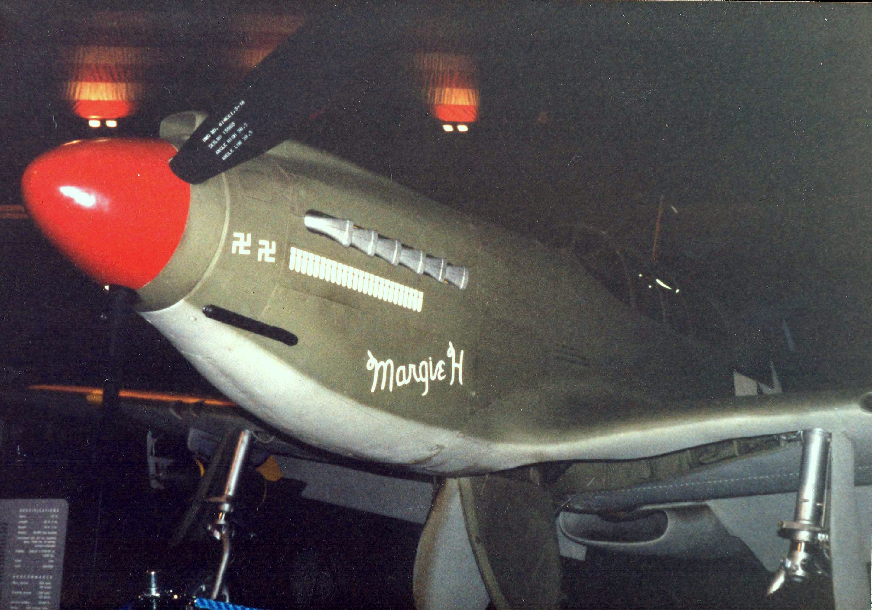 A-36A survivor "Margie H" at the National Museum of the USAF.